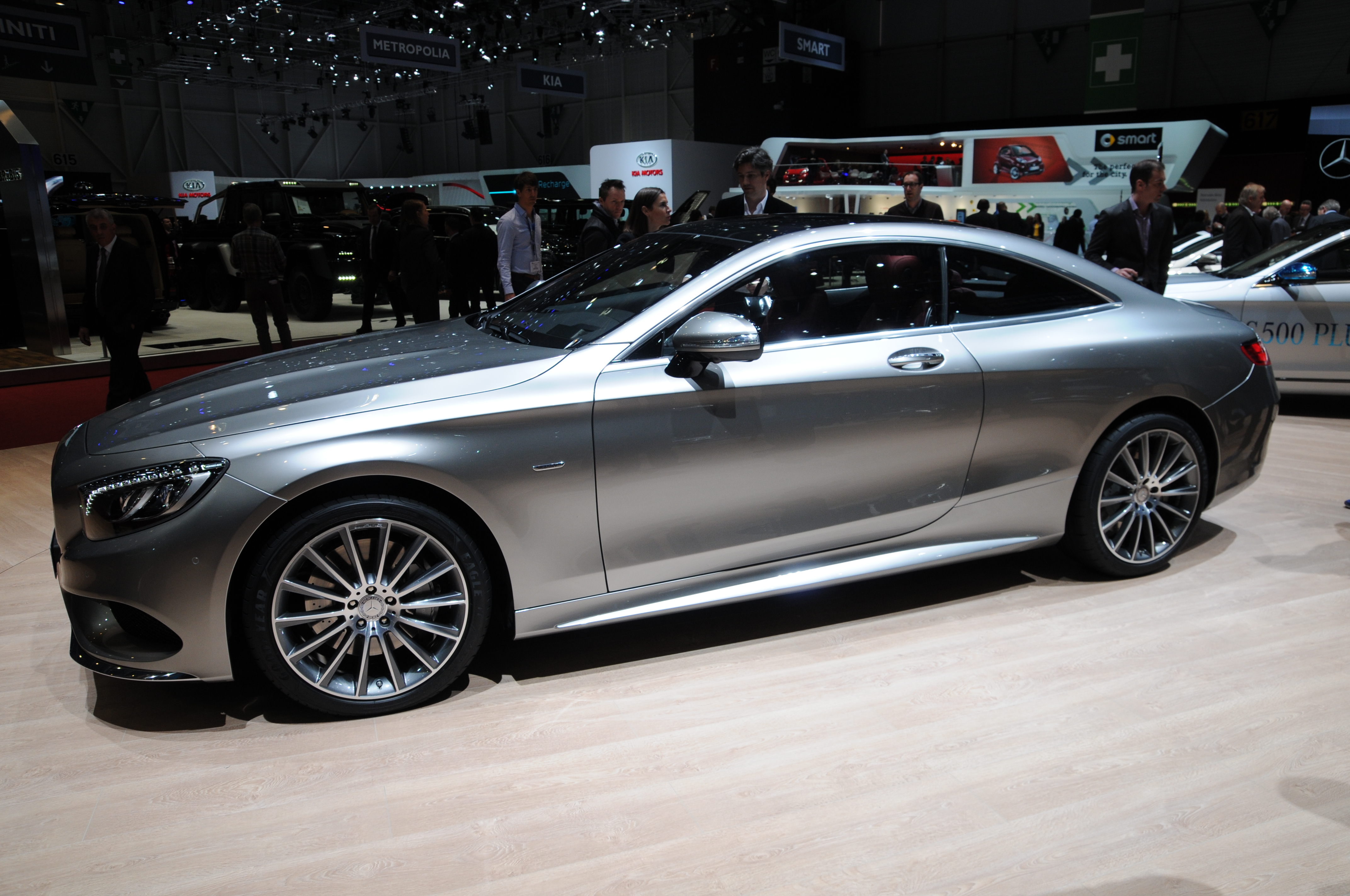 Geneva Motor Show 2014 (photo taken on the first press day)